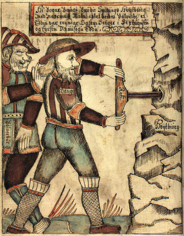 An illustration of Odin and the jötunn Baugi who bores through the mountain with a drill, from an Icelandic 18th century manuscript.